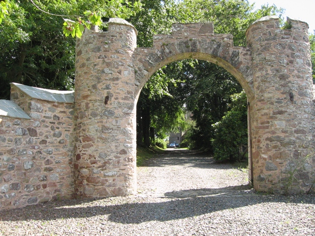 Dalcross Castle. A recently constructed wall and gateway protect the castle, built in 1620 as the home of the chief of Clan Frazer. Now it is available for holiday letting.